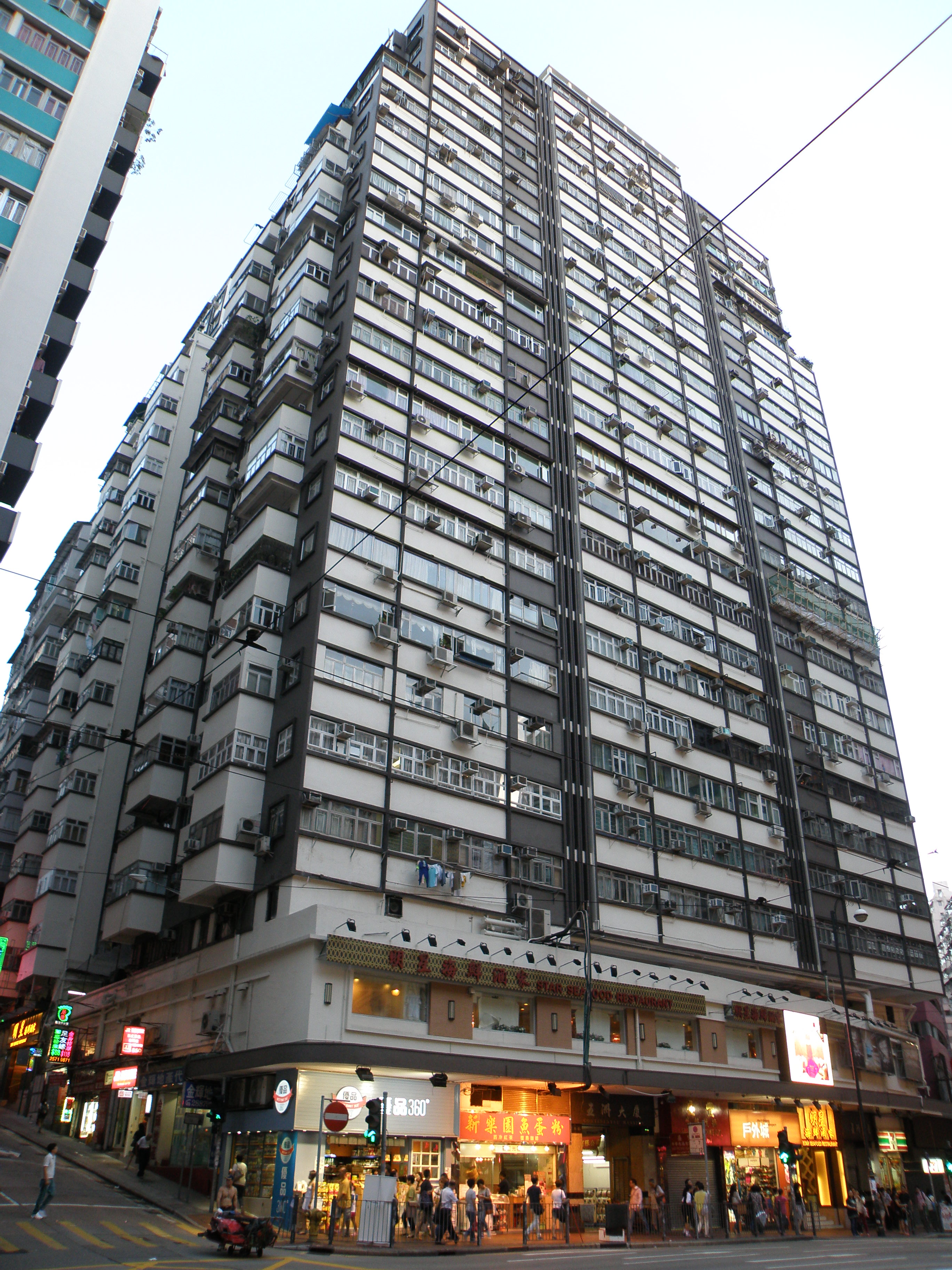 Continental Mansion in Fortress Hill, Hong Kong.